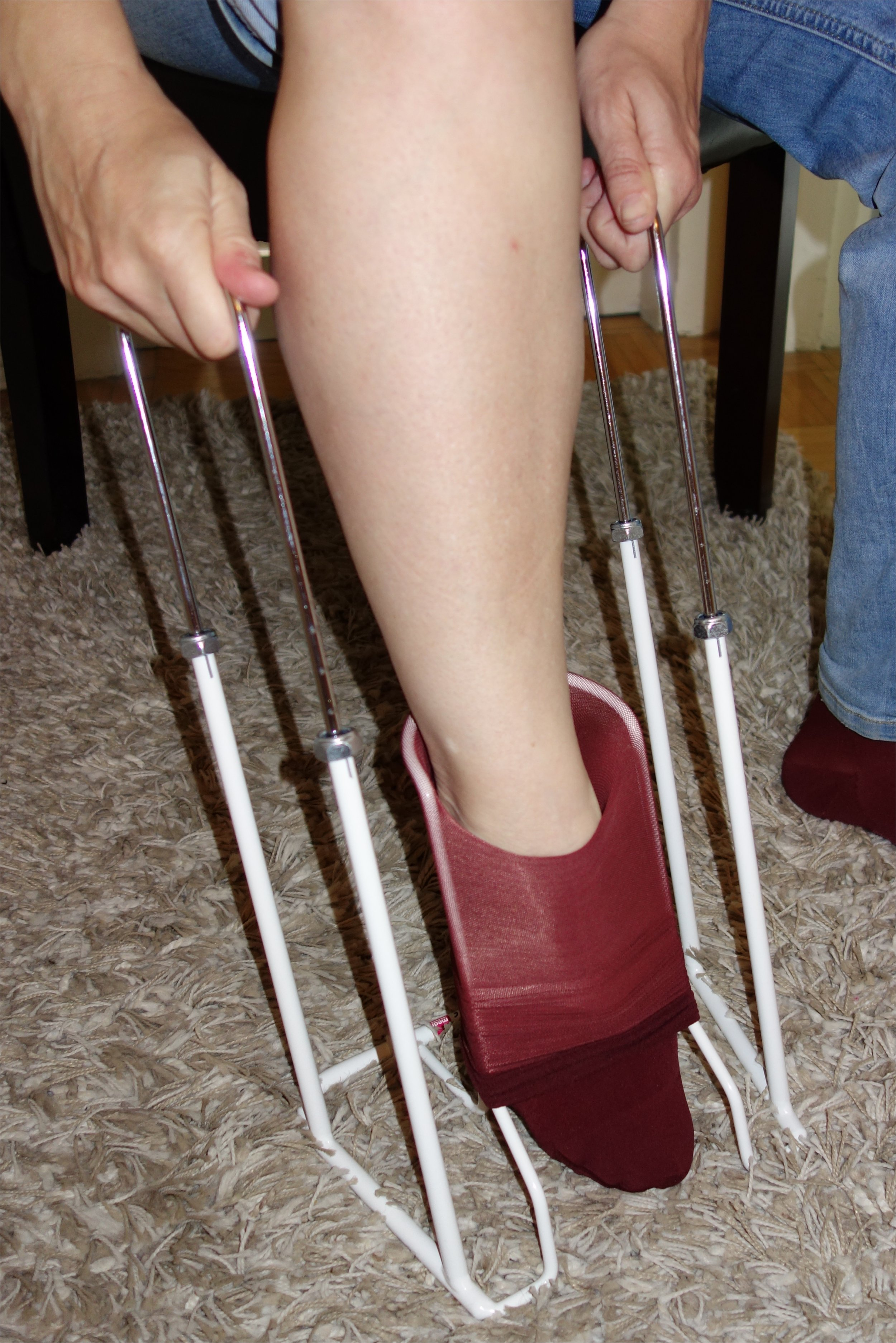 Applying the compression stocking with an aid